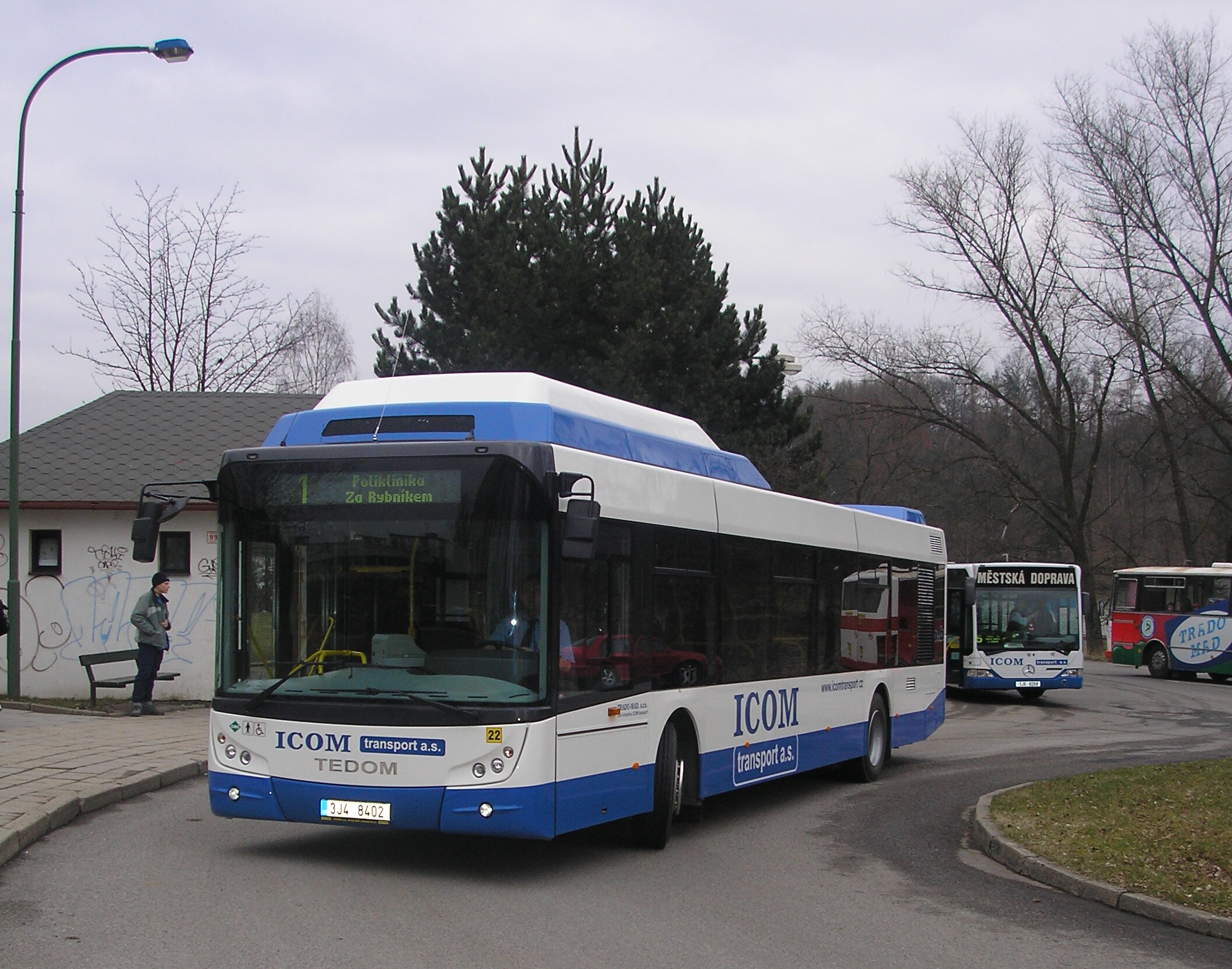 TEDOM C12G (#22, reg. 3J4 8402) in Třebíč, Borovina, Czech Republic. Built 2009, ICOM Trado-Mad Třebíč operator.